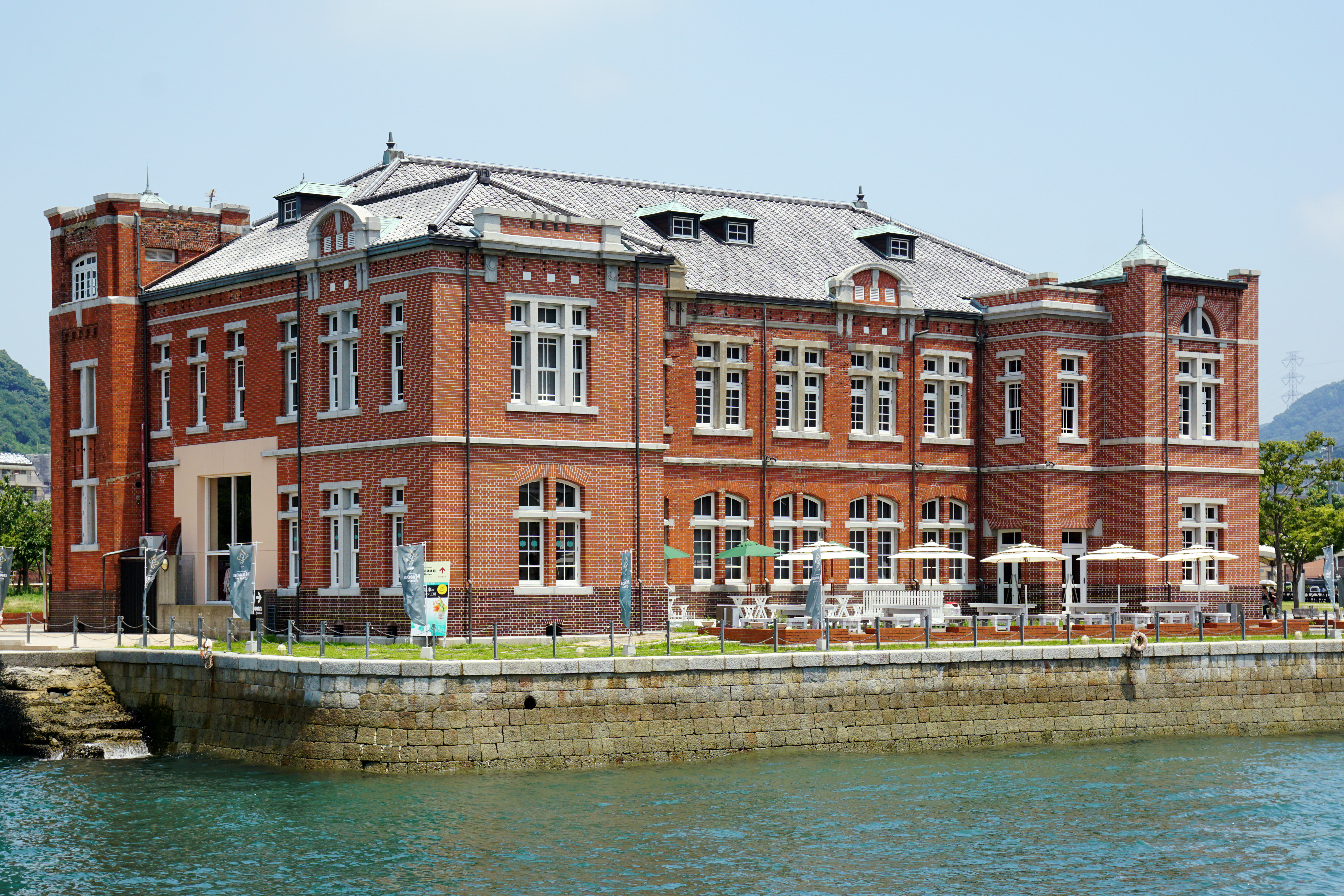 Former Moji Customs in Kitakyushu, Fukuoka prefecture, Japan.